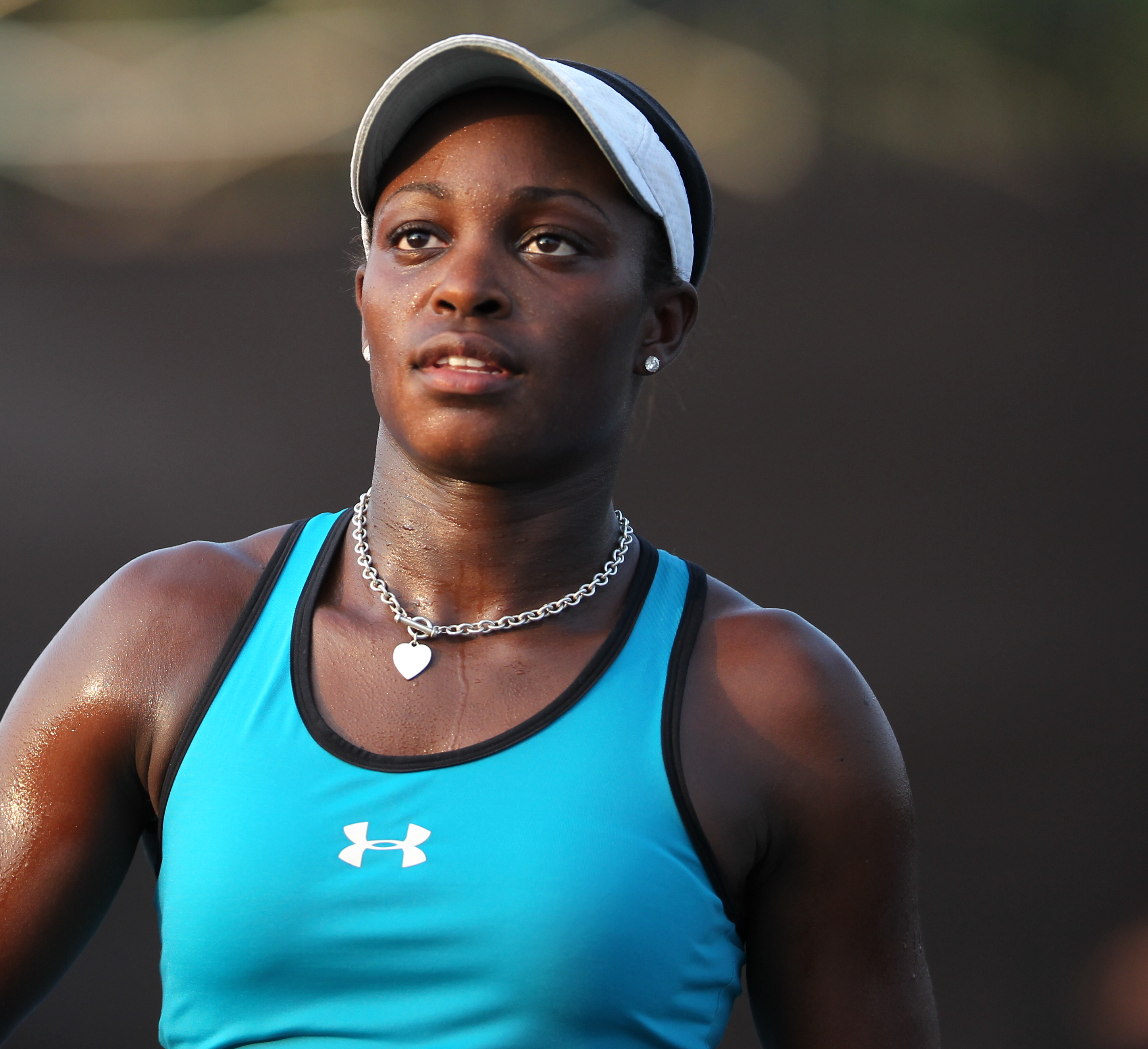 Citi Open Tennis July 29, 2011